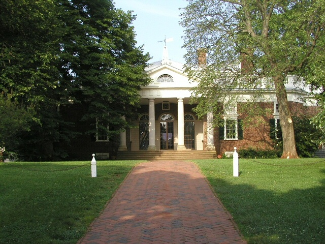 Though not seen as often as the back of the house, this is the front of Monticello and the main entrance. Picture taken in June 2005. The creator of the picture releases it into the public domain.